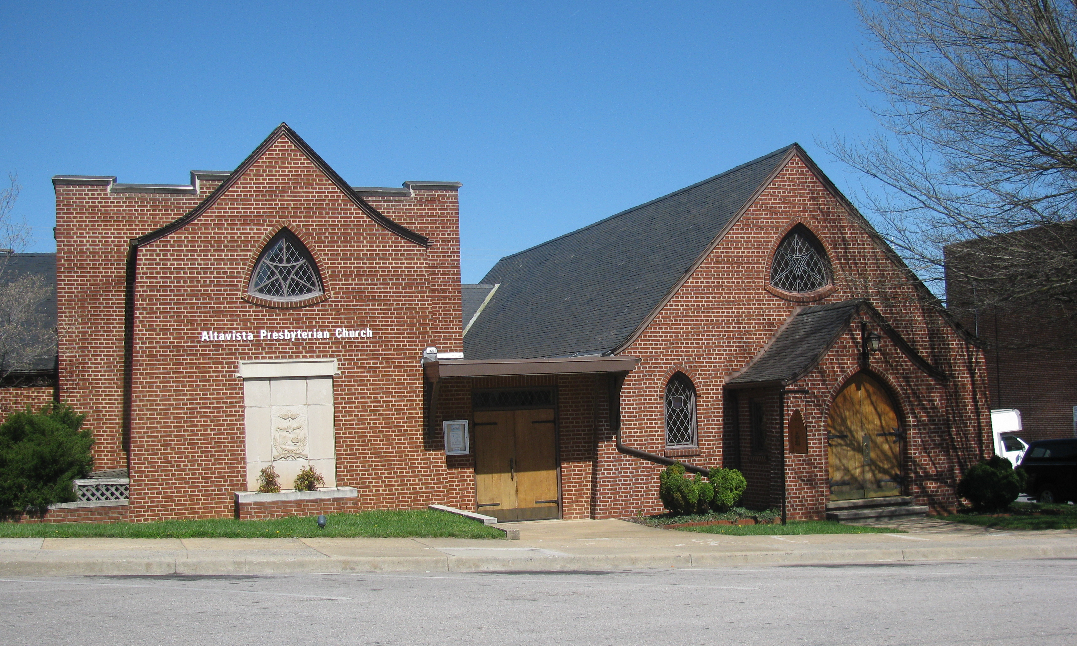 Campbell County Library in Altavista Va